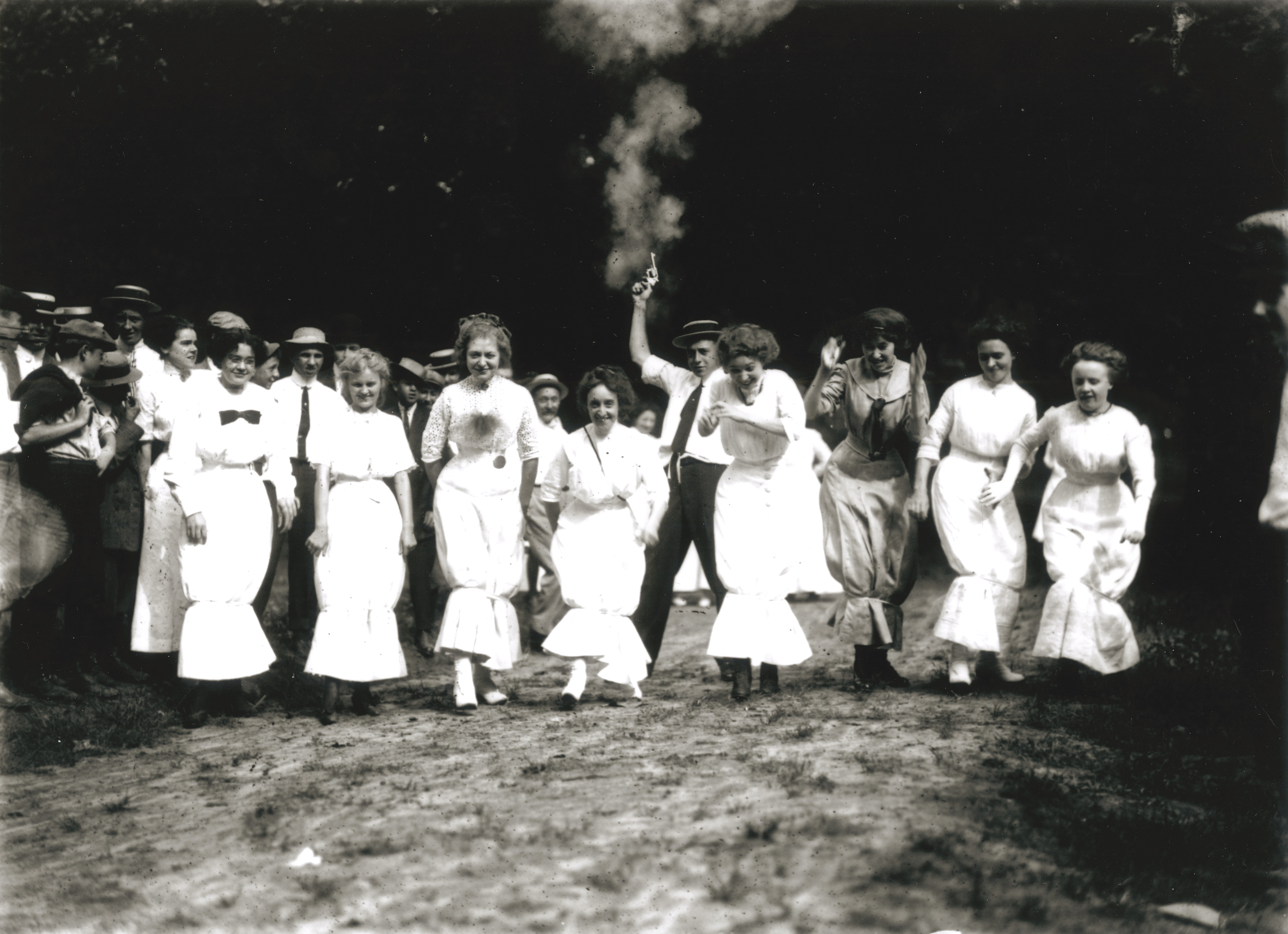 Starter gun has just been fired by man in straw boater hat. Eight women at start of hobble skirt race are watched by group of men and a few women. Hobble skirt races were popular from about 1910 to 1915 Title: Eight women participate in a hobble skirt race. Starter gun has just been fired by man in straw boater hat.